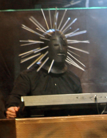 Sampler Craig Jones of Slipknot at the mayhem festival 2008.